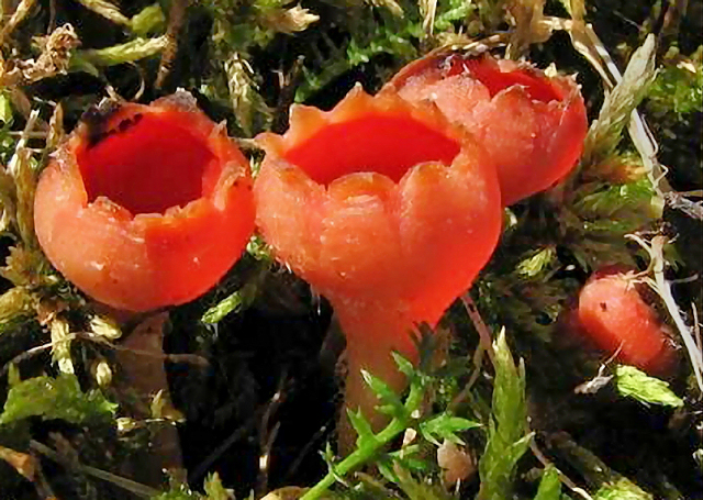 Microstoma protractum (Fries) Kanouse Image location: Hörnefors, Västerbotten, Sweden Recognized by sight: Found today at the same spot as obs 45738 For more information about this, see the observation page at Mushroom Observer.